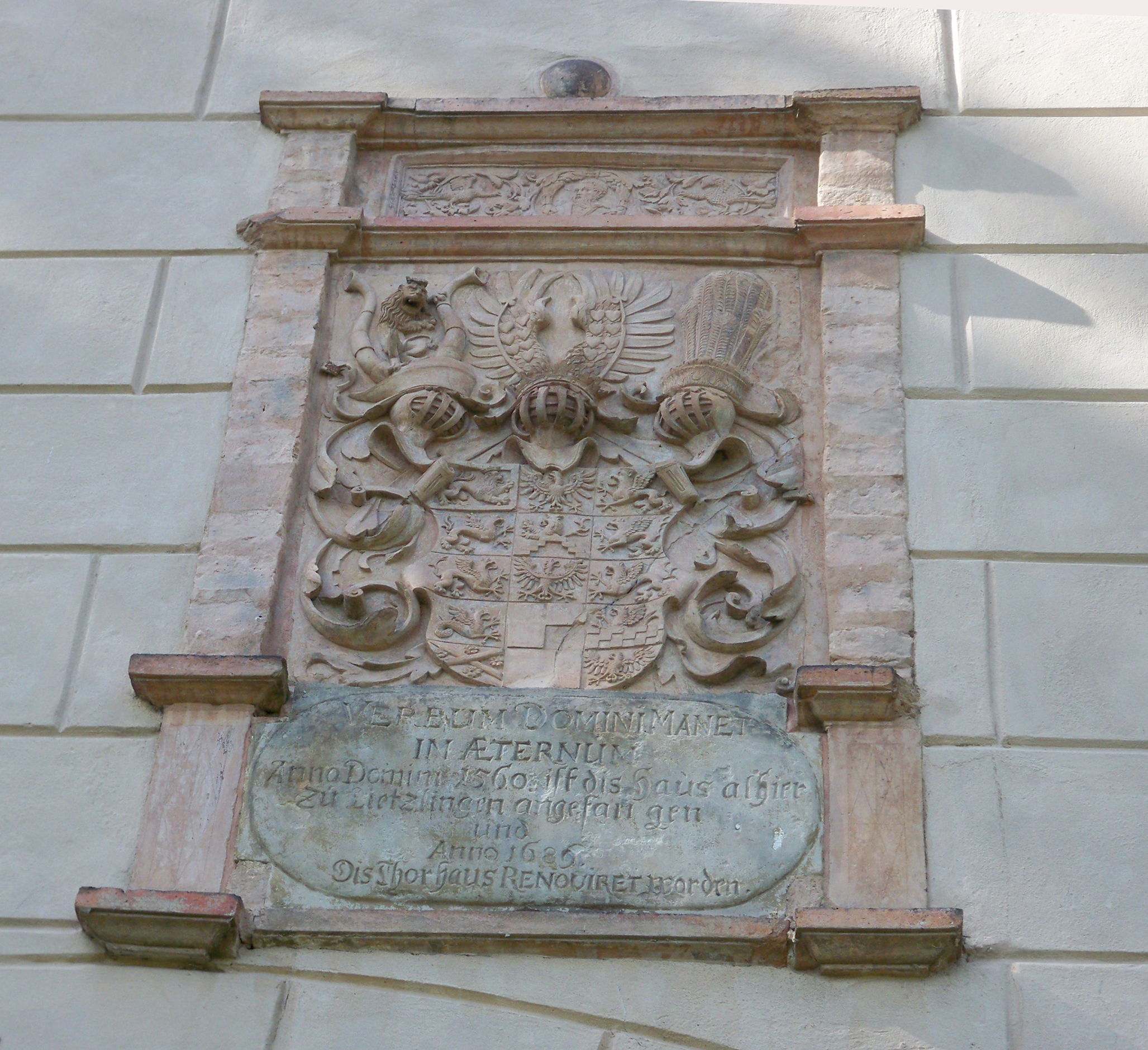 Letzlingen, Saxony-Anhalt, sign at the gate house of former castle building